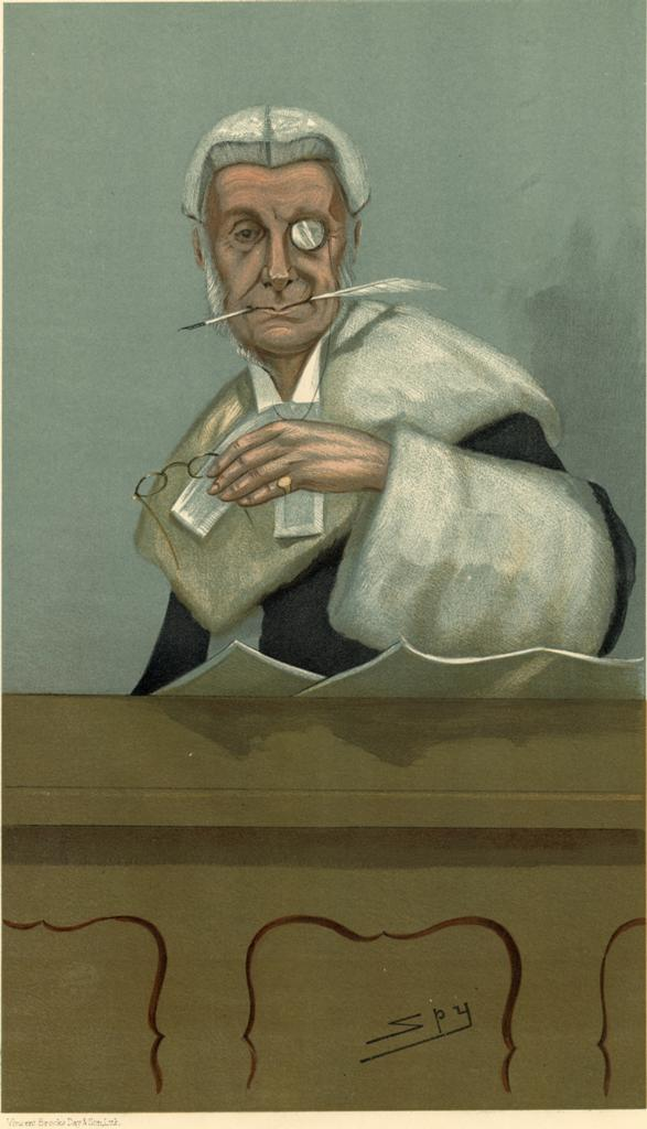 Caricature of Sir Arthur Moseley Channell, QC - "An Amiable Judge".